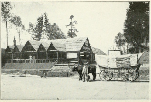 Ezra Meeker with his wagon and this restaurant on the "Pay Streak", the Alaska-Yukon-Pacific Exposition's amusement area.